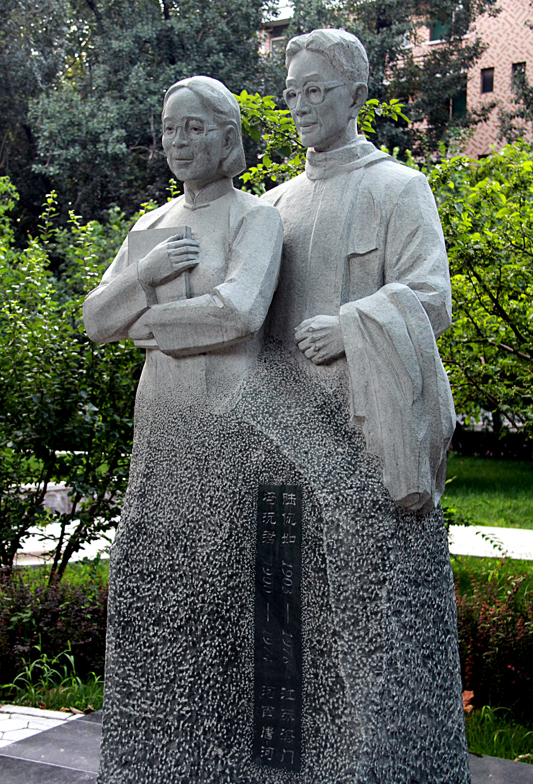 Photograph of a sculpture of Feng Yuanjun and her husband Lu Kanru on the Central Campus of Shandong University in Jinan, Shandong Province, China.